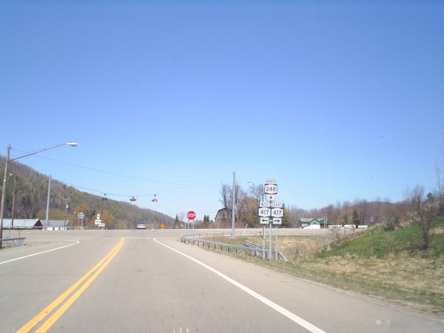 The junction of New York State Route 248 and New York State Route 417 in Greenwood.